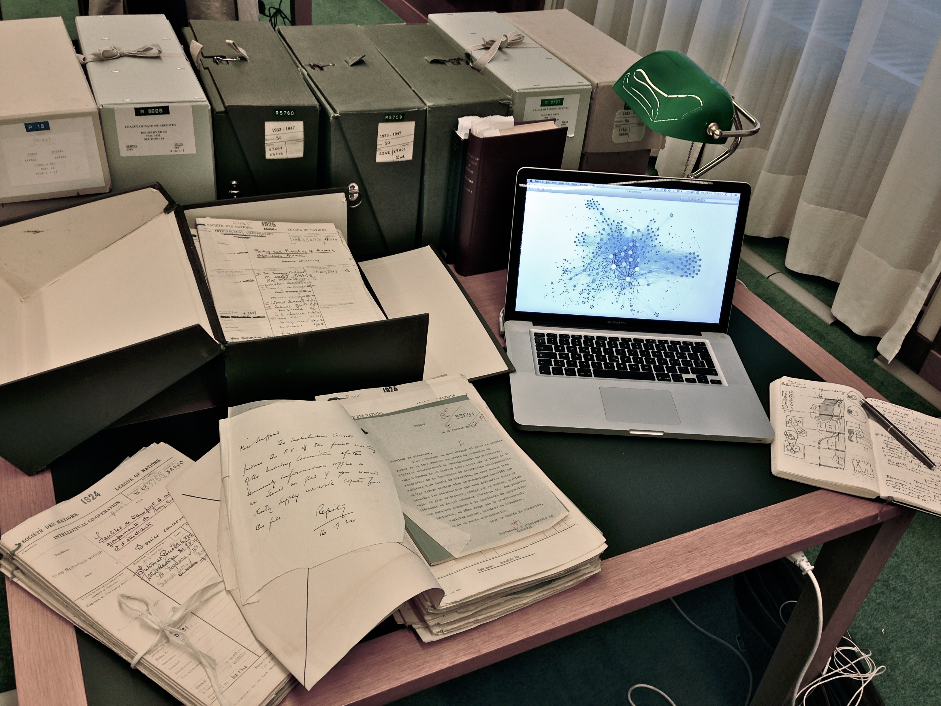 Illustration of the epistemologic changes of the 'digital humanities': archives organized with network visualization and analysis. League of Nations Archives (UN Geneva). GRANDJEAN Martin, The Networks of Intellectual Cooperation. The League of Nations as an Actor of the Scientific and Cultural Exchanges in the Inter-War Period, University of Lausanne, 2018, 600 p. (PDF)